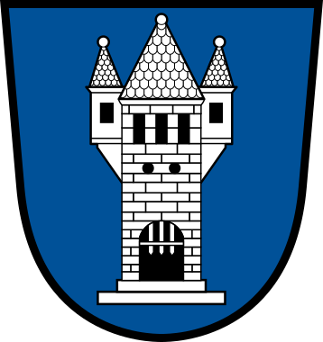 Coat of arms of Hüfingen